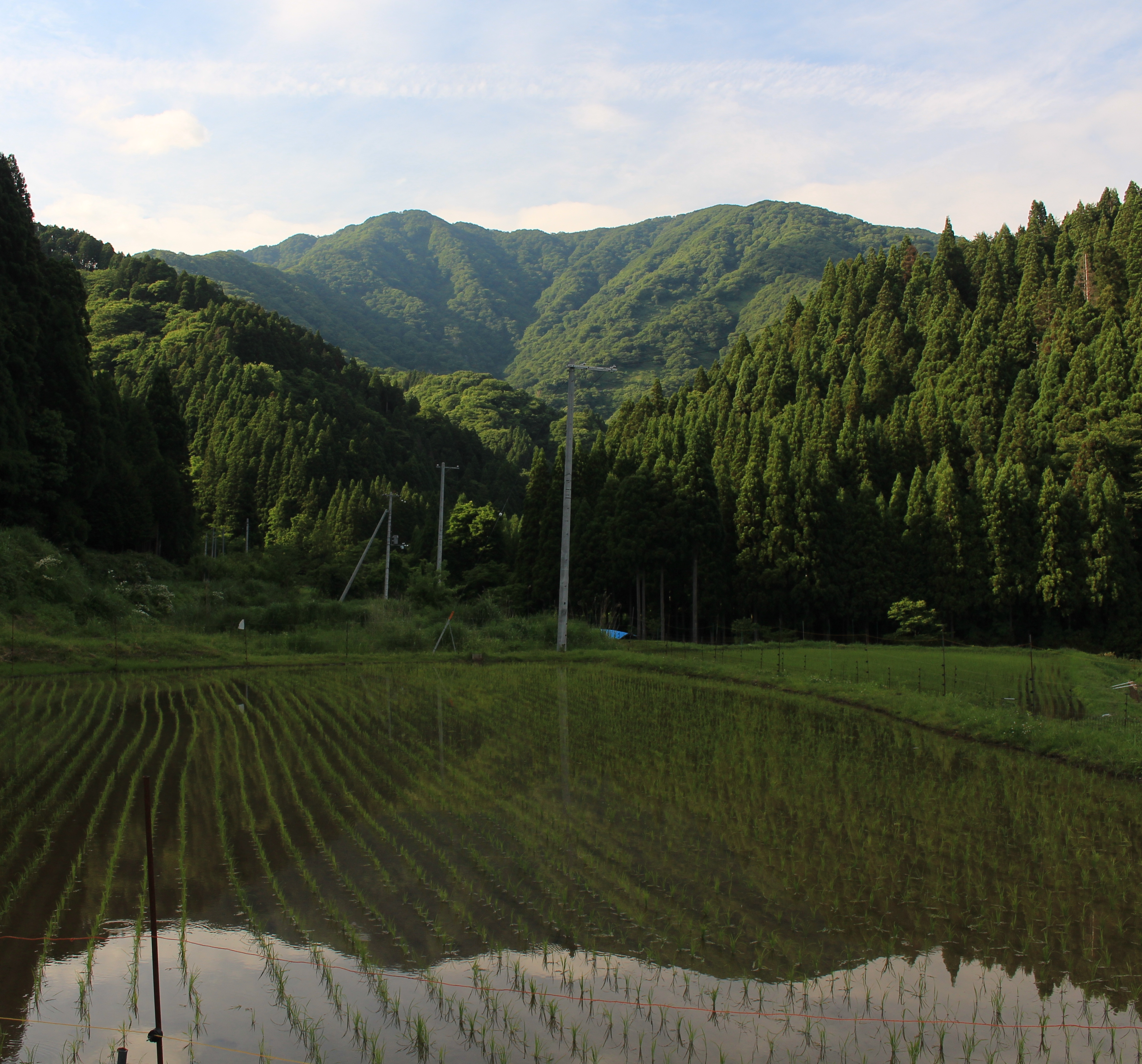 Mount Yokoyama in Nagahama, Shiga prefecture, Japan.